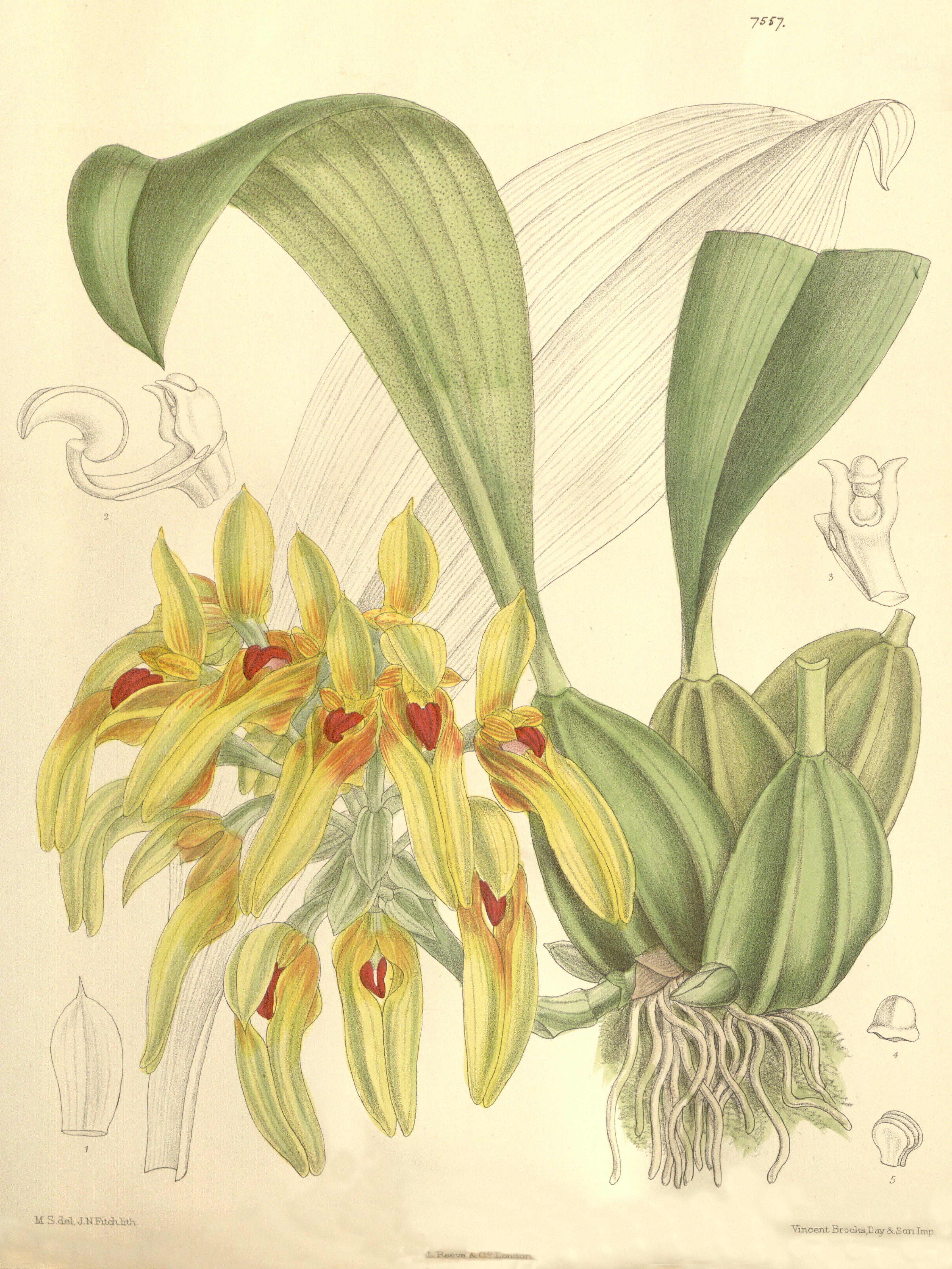 Illustration of Bulbophyllum graveolens (as Cirrhopetalum robustum)